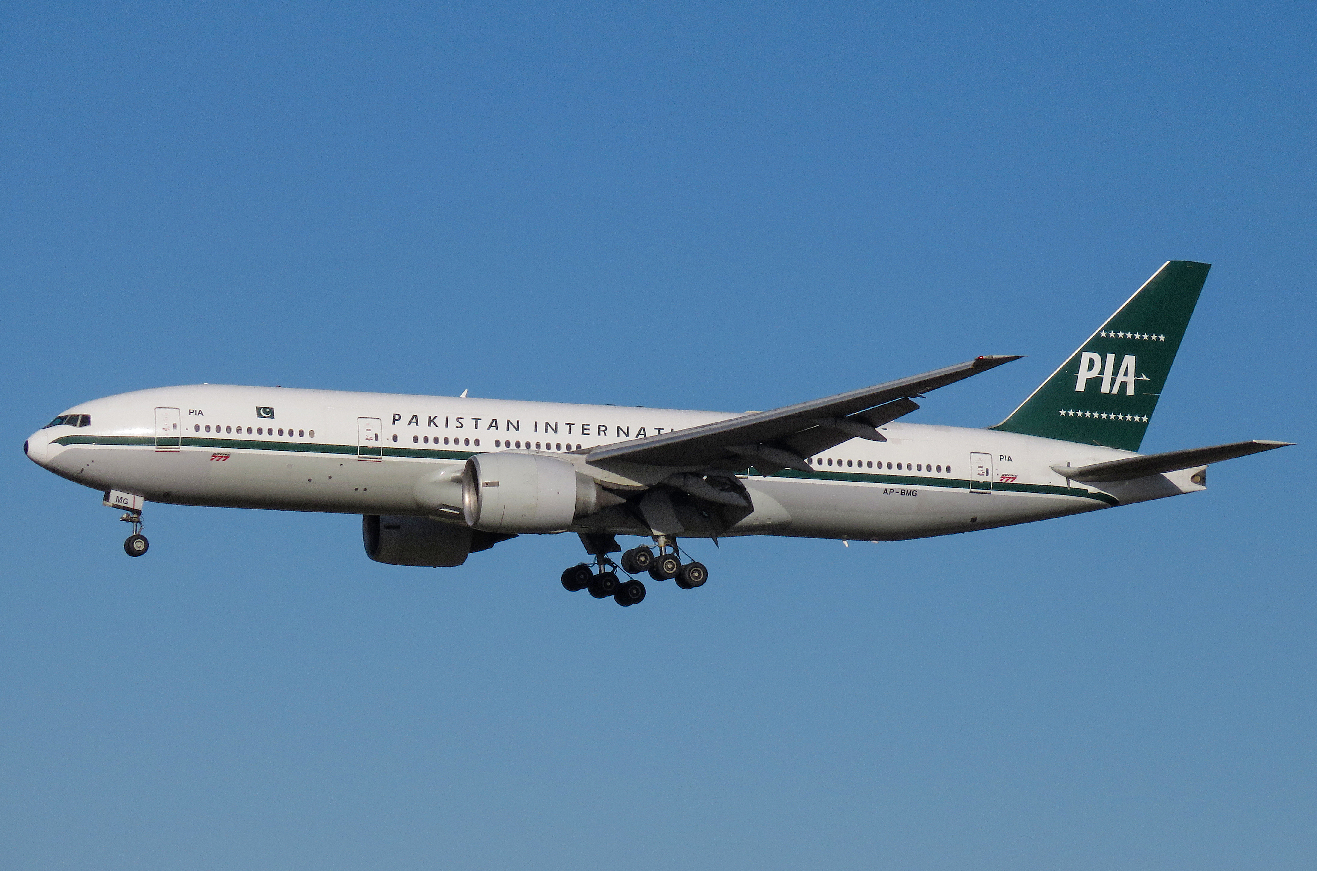 Pakistan 853 from Tokyo-Narita. This 772ER is seen wearing PIA's 1960 livery which was used on Boeing 720. A Boeing 720 registered AP-AMG was active in the 1960's, while this AP-BMG is active from the 2010's.